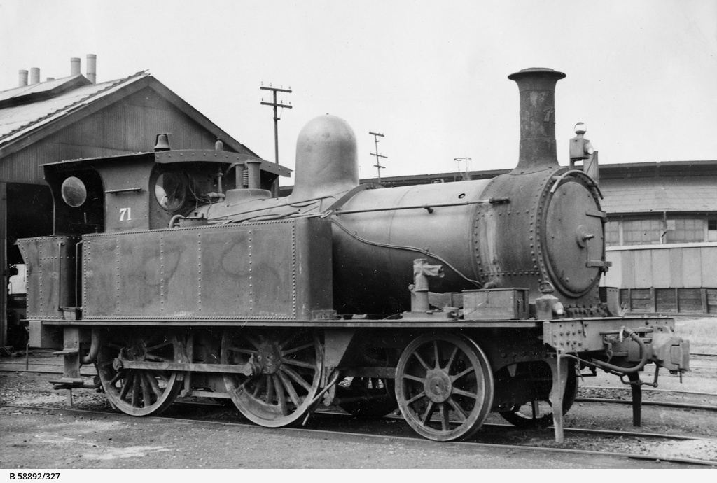 South Australian Railways P 71 at Mile End, 7 December 1952